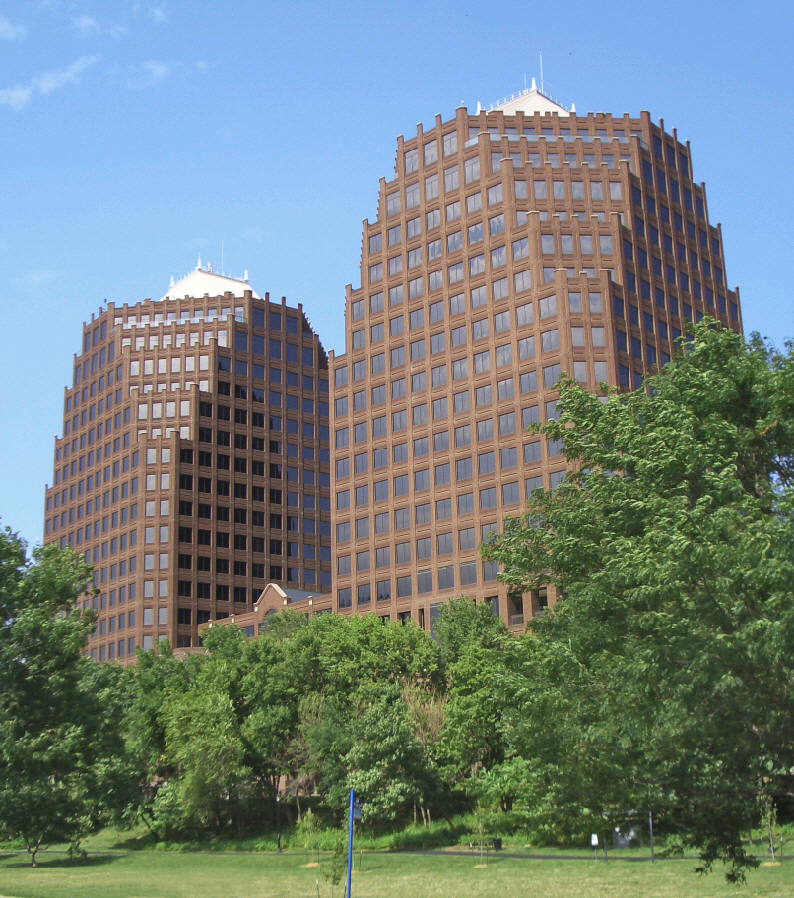 American Century Towers I & II, located at 4500 Main Street in Kansas City, Missouri